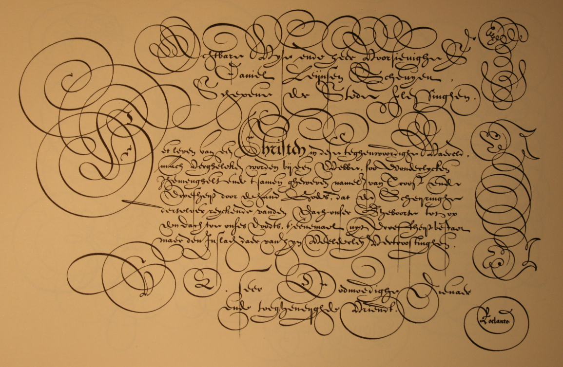 David Roelands, Magazin der Penn-Const, 1616.